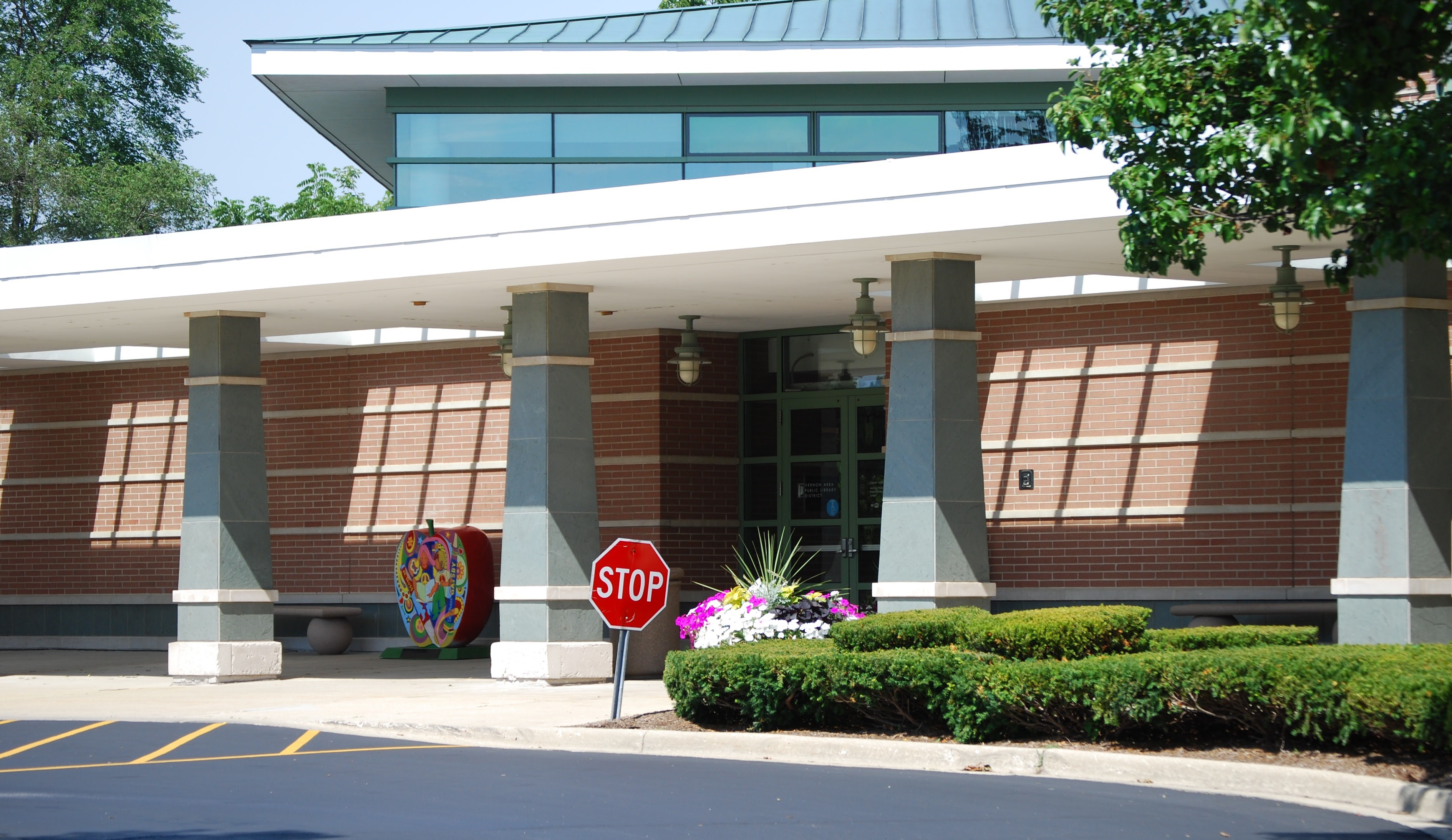 Vernon Area Public Library District serves 42,000 patrons in southern Lake County, Illinois, outside Chicago.